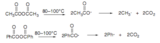 gadfsg